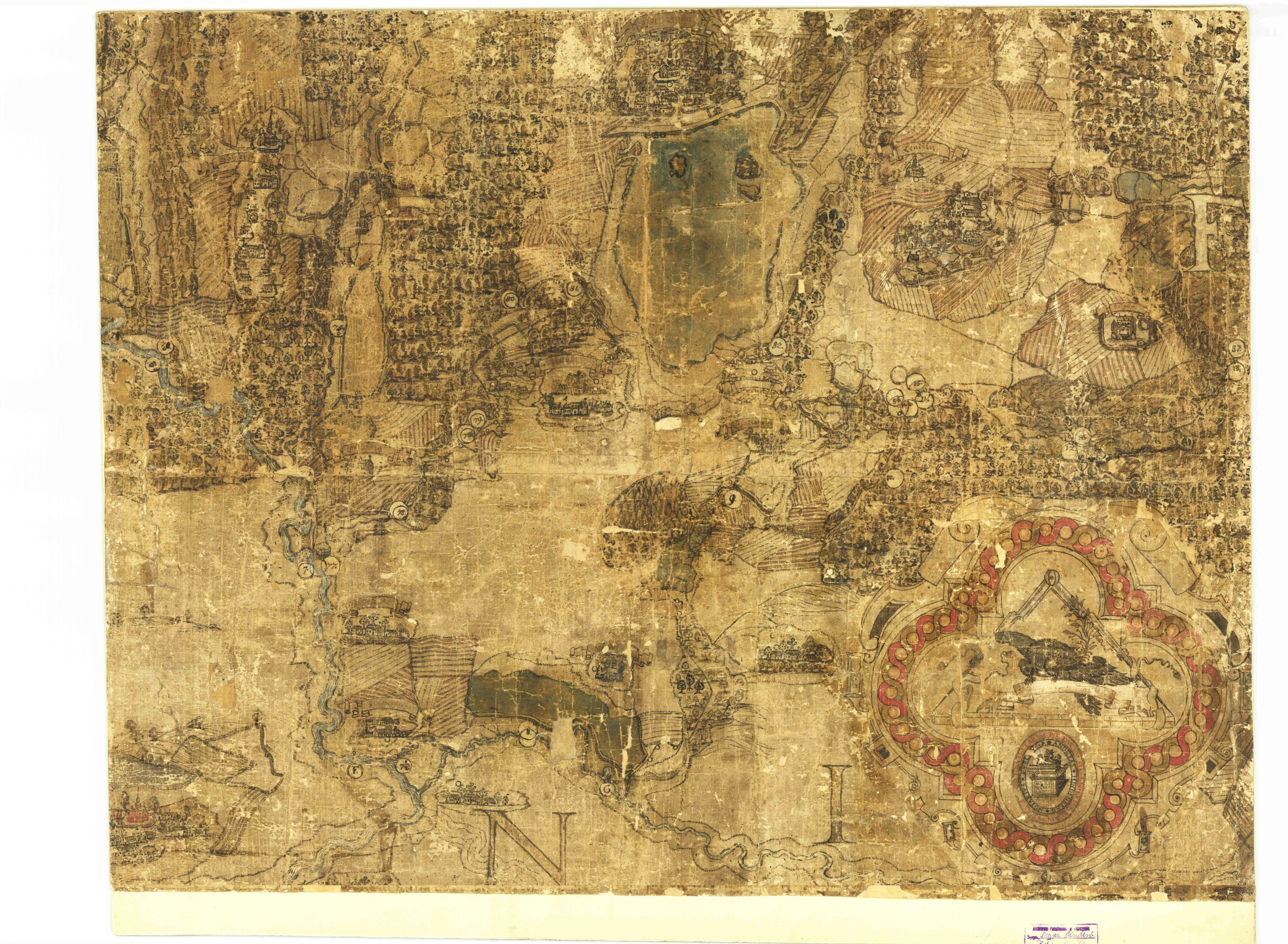 Bieruń. A fragment of Andreas Hindenberg’s map from 1636 (Ichnoorthographia Plesniaca) – the oldest multi-scale (1: 18 728) map of Poland . There is the first famous view of the castle in Pszczyna on this map. The collection of the State Archives in Katowice.